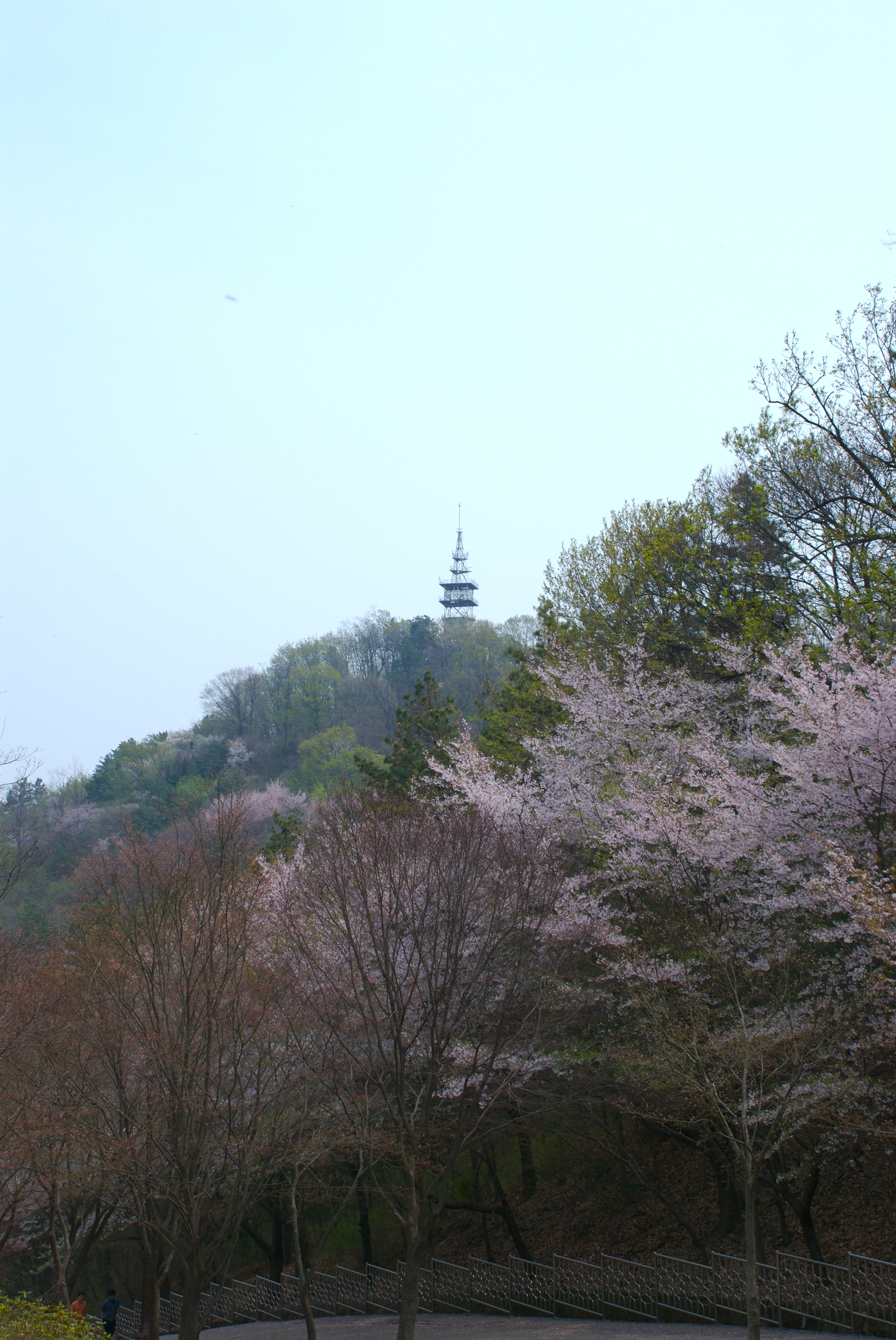 Photograph of a metal tower at Bomunsan in Daejeon, South Korea. It was taken from a hiking path.